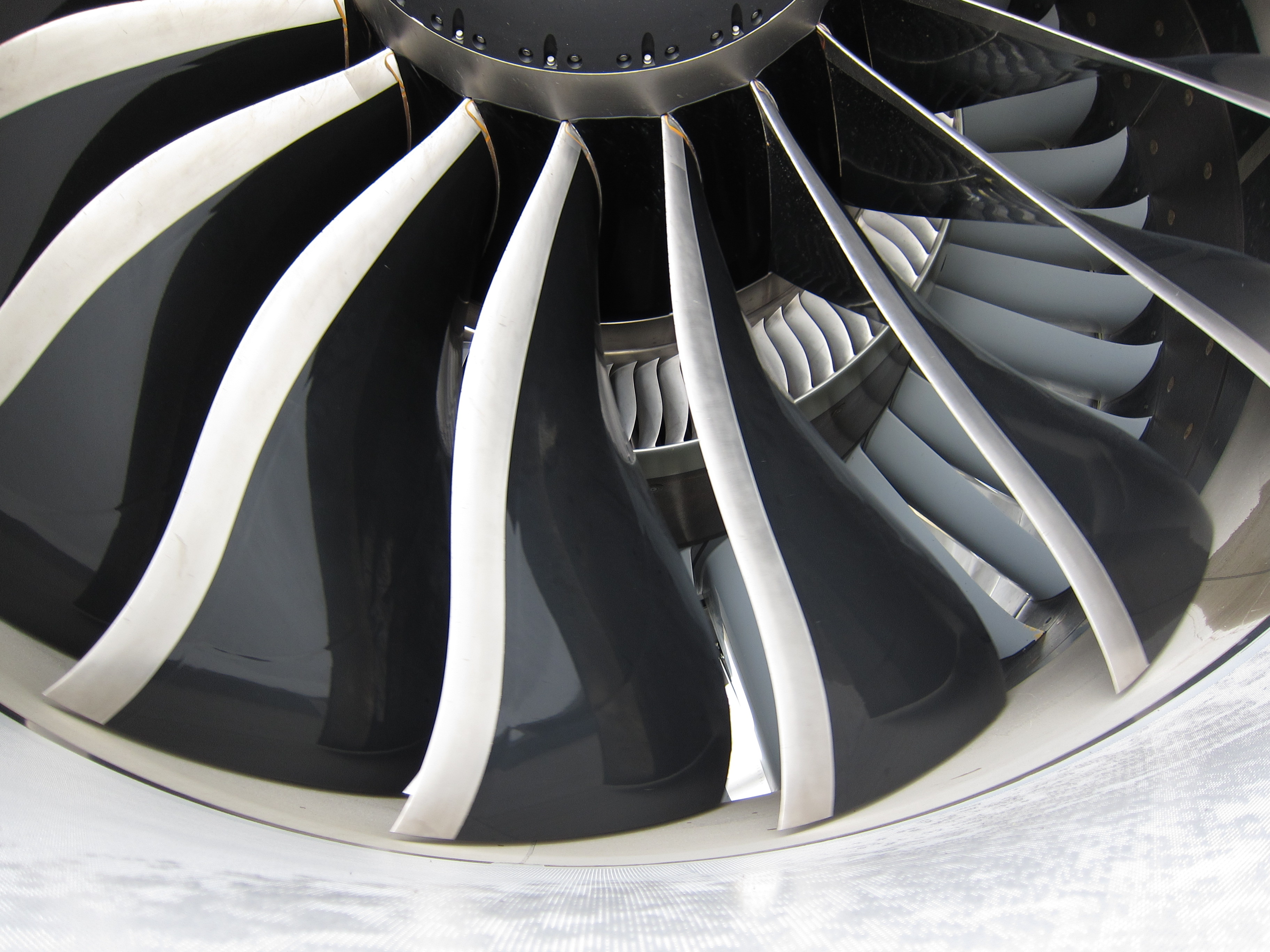 The fan blades of the General Electric GEnx engine on a Boeing 747-8 (version -2B of the engine). Behind the fan, the compressor inlet guide vanes (inner circle) and fan stator blades (outer circle) can be seen.